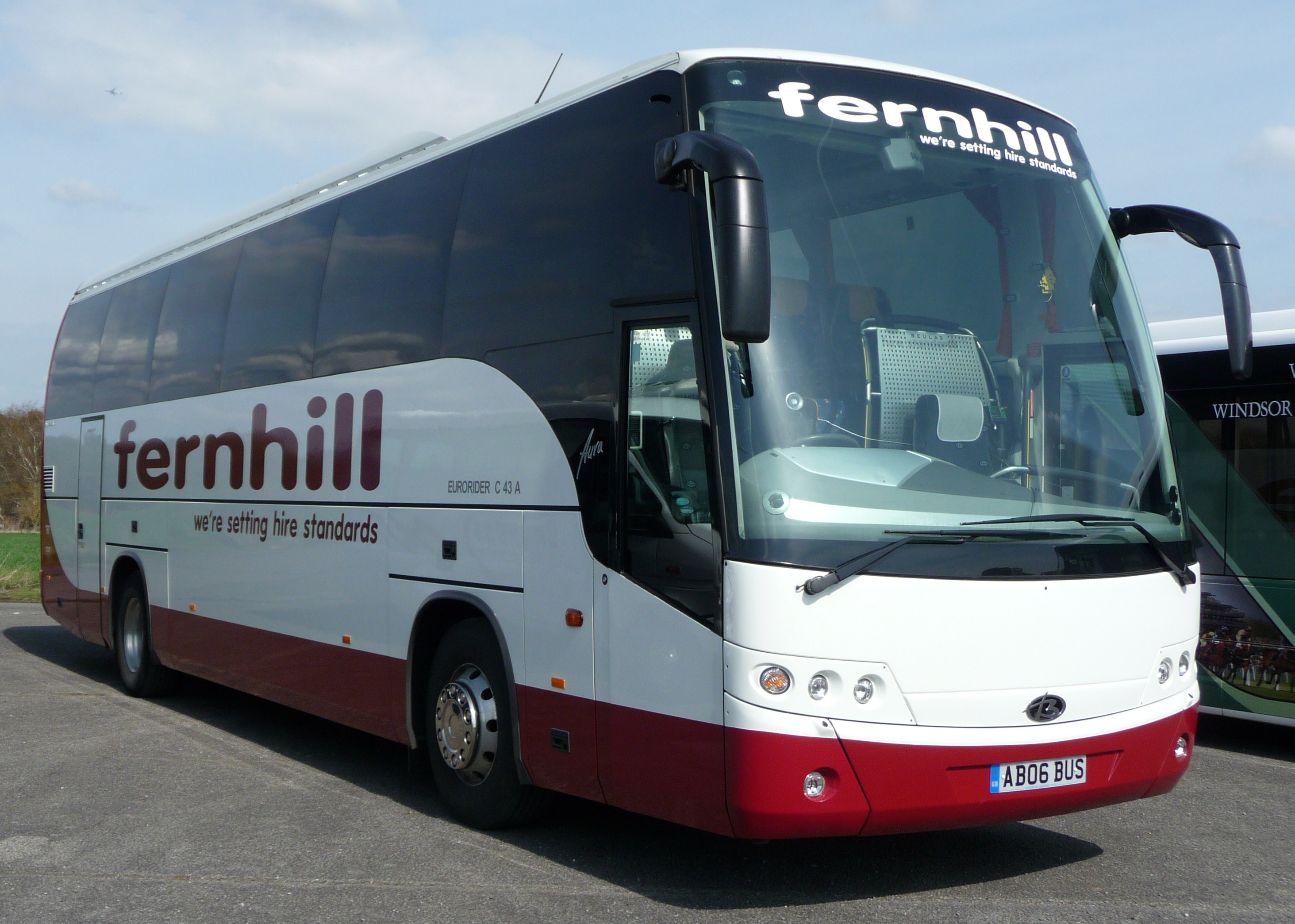 Fernhill's AB06 BUS, an Irisbus EuroRider C43 A/Beulas Aura, at the 2009 Cobham bus rally at Wisley Airfield.